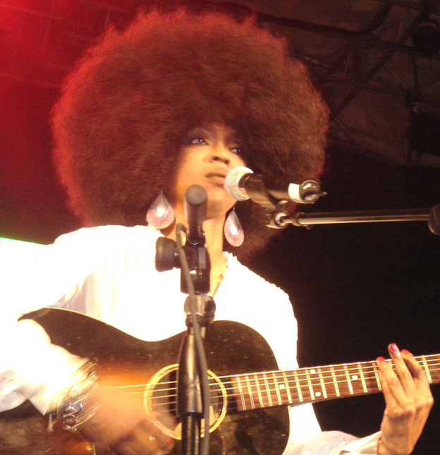 Lauryn Hill at Central Park